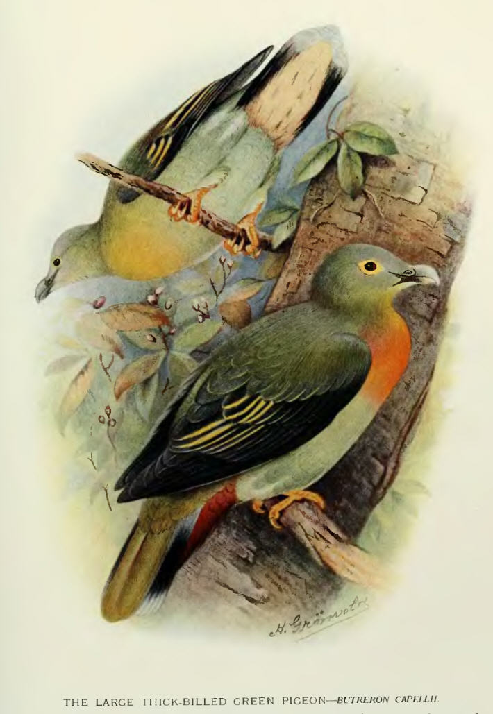 Treron capellei